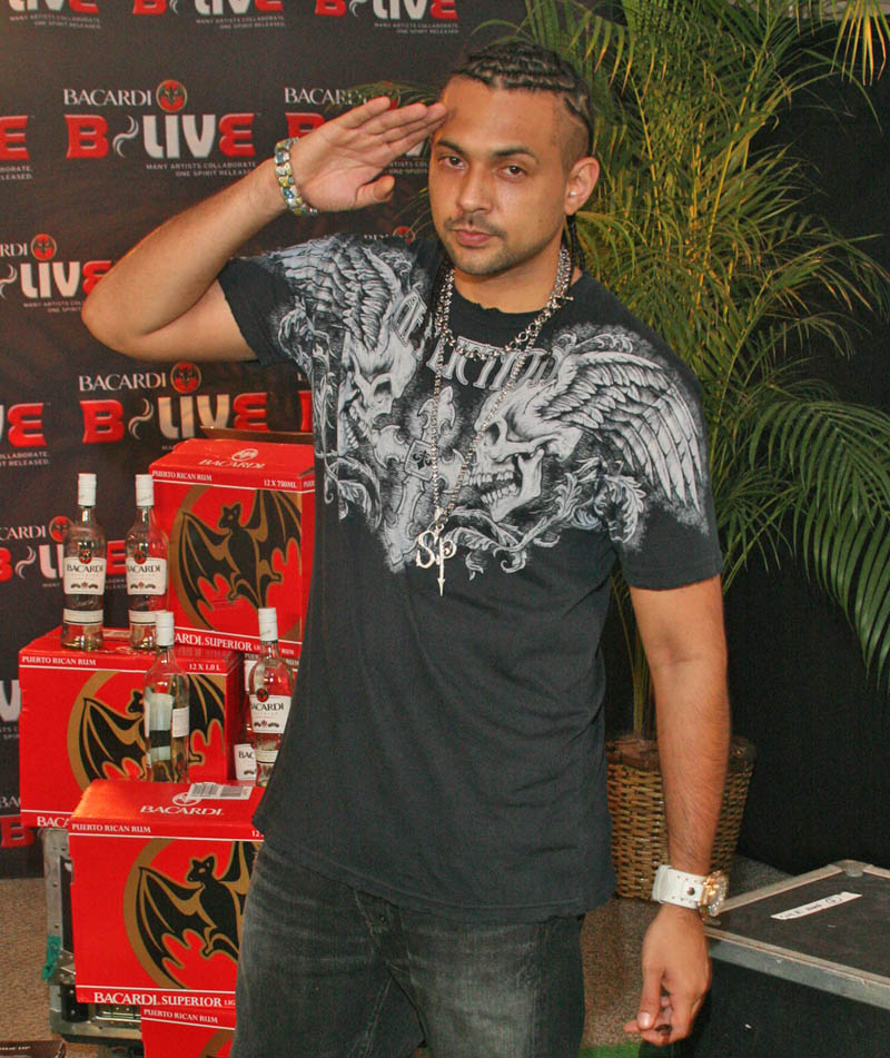 Sean Paul at B-Live concert in New York City